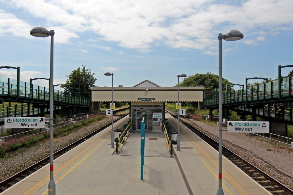 Prestatyn railway station